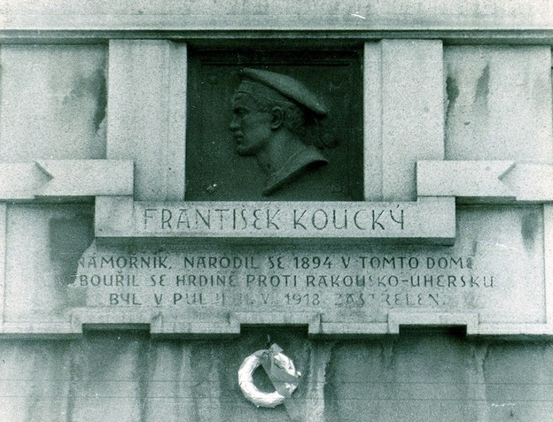 Frantisek Koucky memorial in Hnidousy, Czech Republic, 1923.